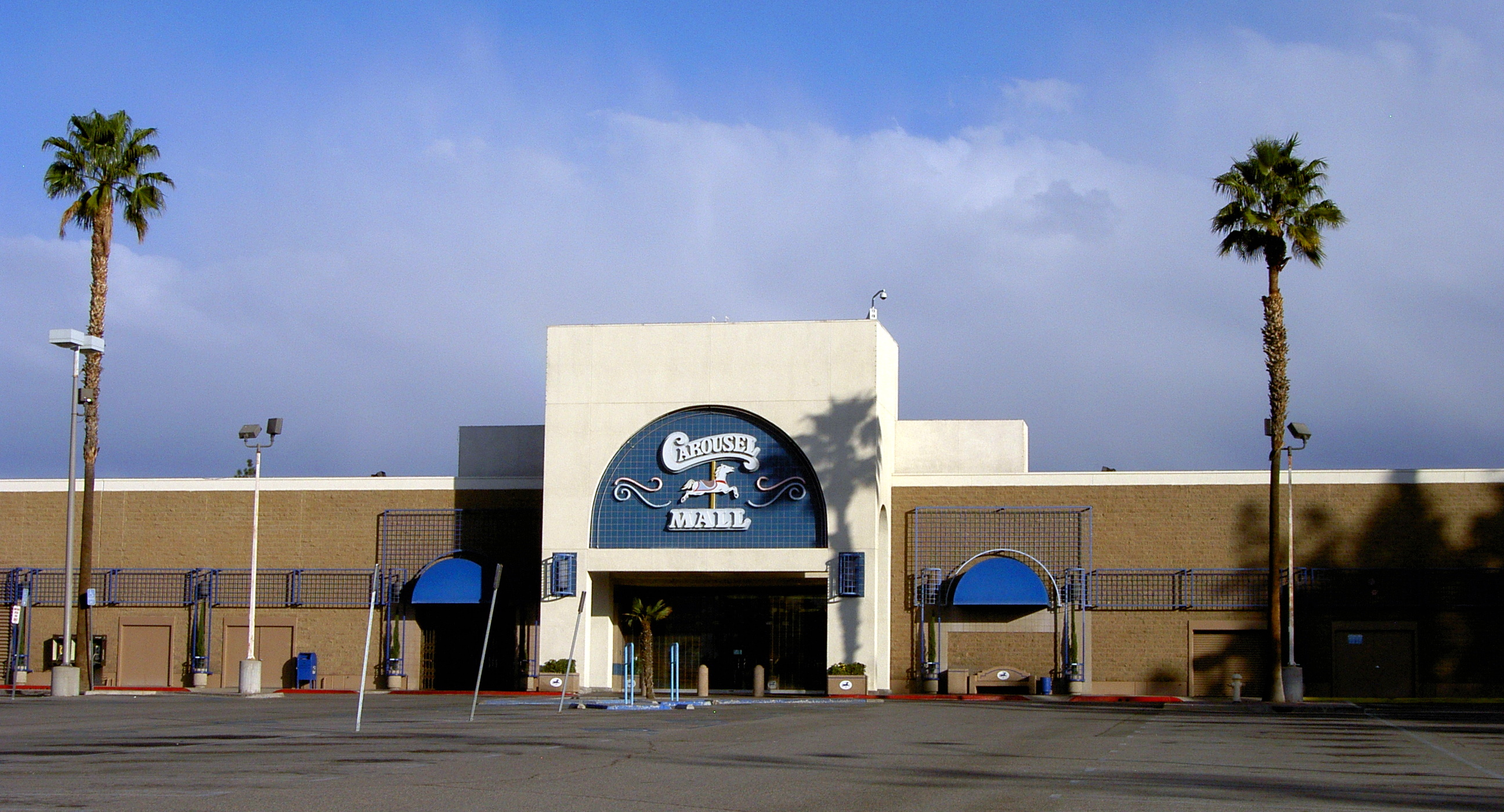 San Bernardino, CA